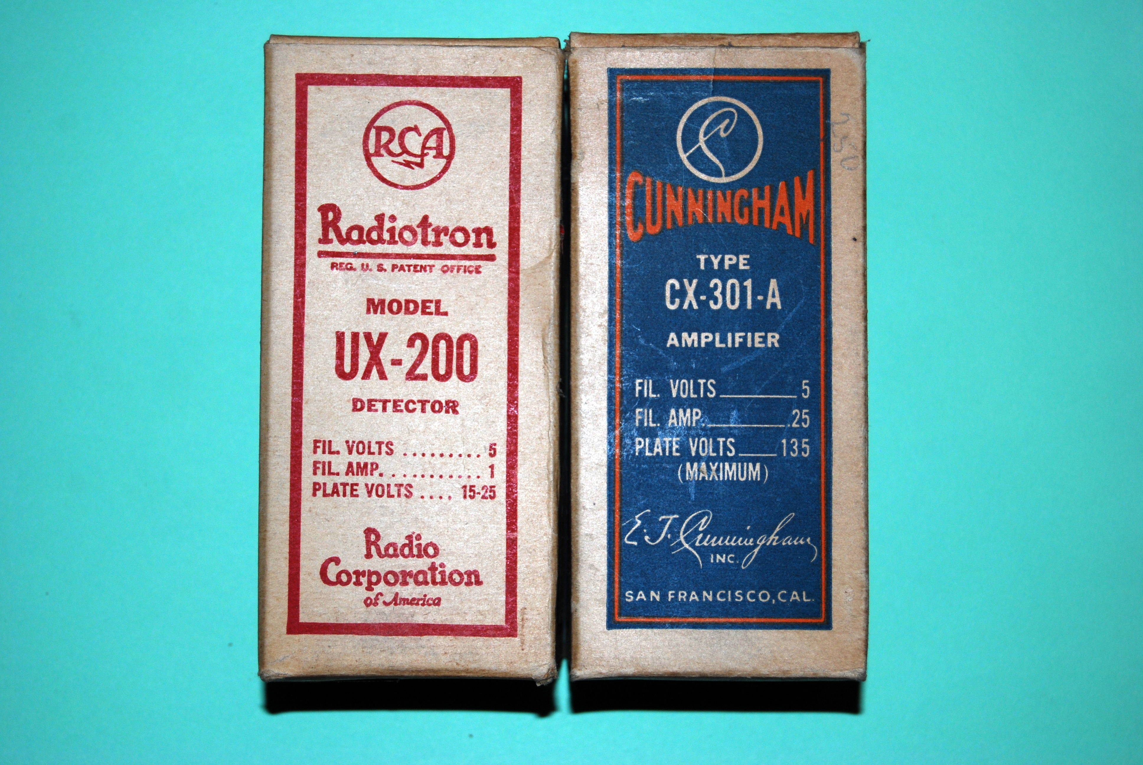 After the RCA lawsuit against Elmer Cunningham in 1920, RCA supplied the tubes and cartons. Cunningham was allowed to use a new trademark and his own artwork but done by RCA.